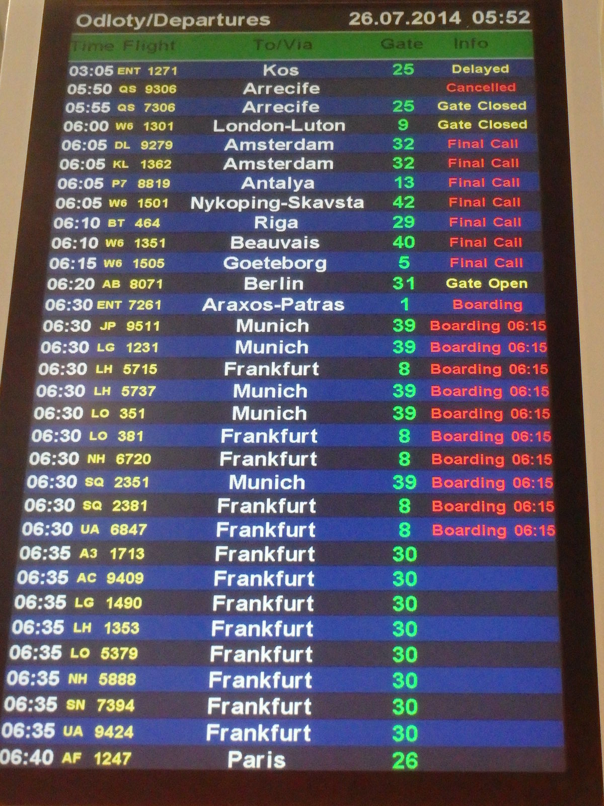 code-shared flights from Warsaw Airport